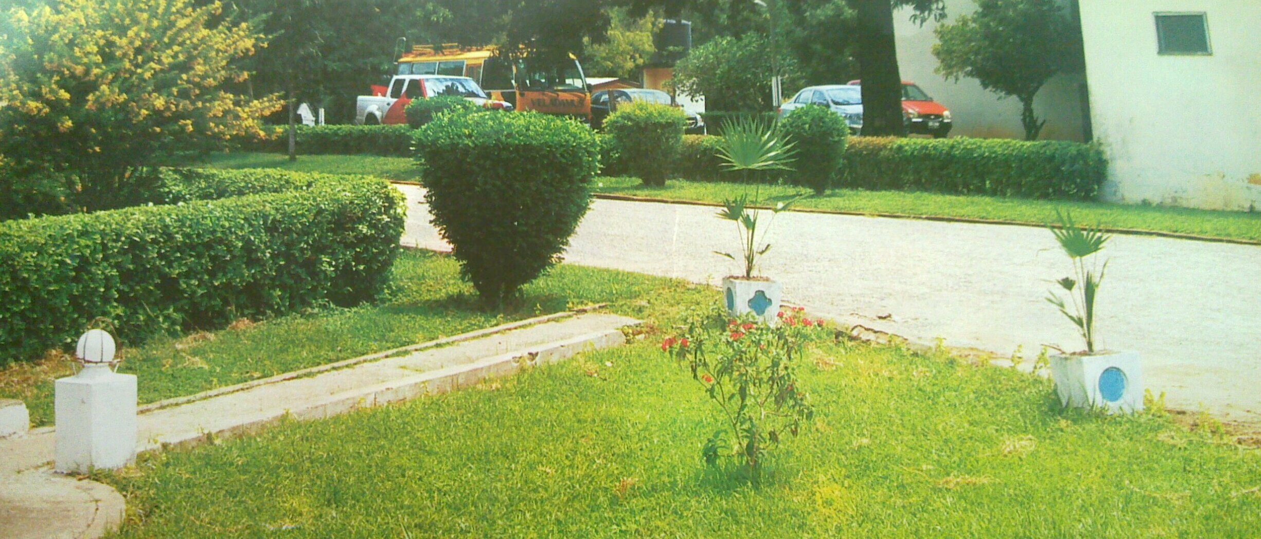 pojoss